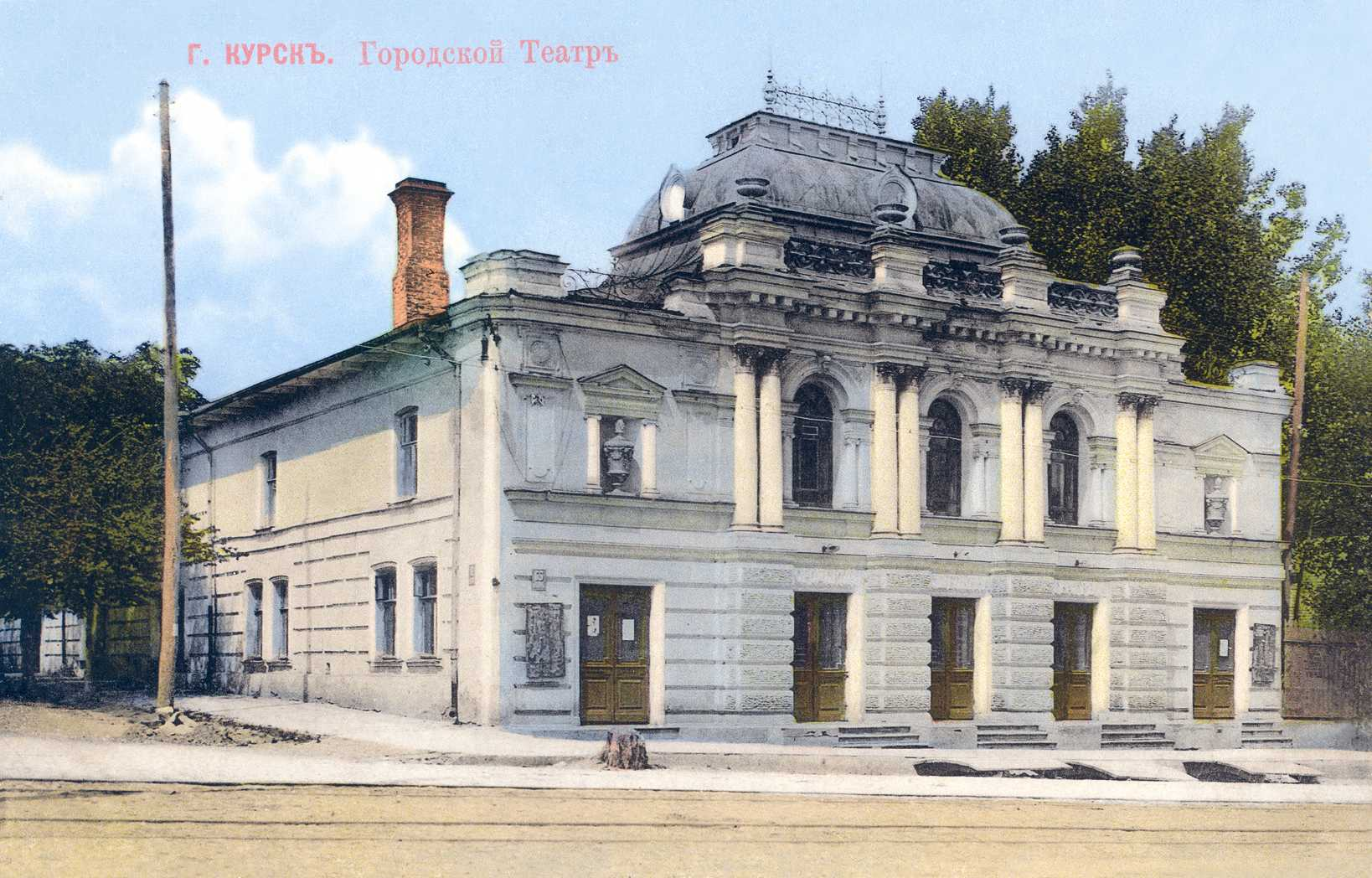 Old building of Kursk theatre named after Mikhail Shchepkin (in 1937 renamed after Alexander Pushkin). Colour postcard made at the begining of the XX century.